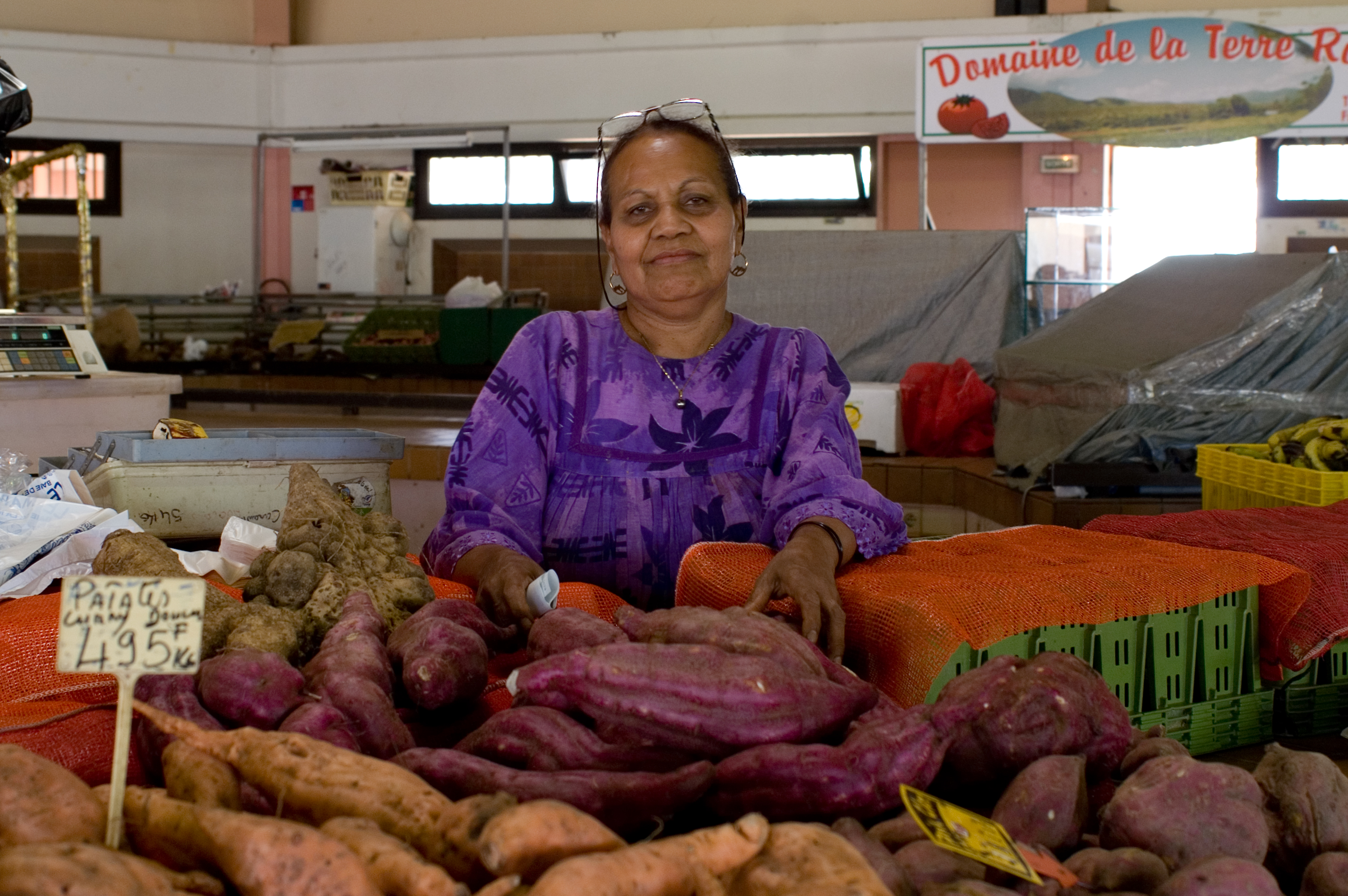 Woman selling sweet potaoes at the fruit market in Nouméa (New Caledonia, France).